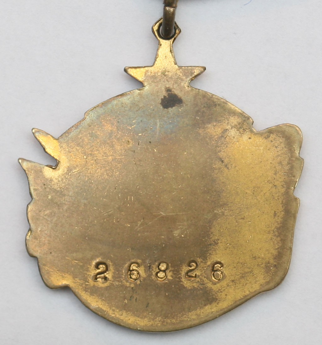 Order for Bravery (Yugoslavia)